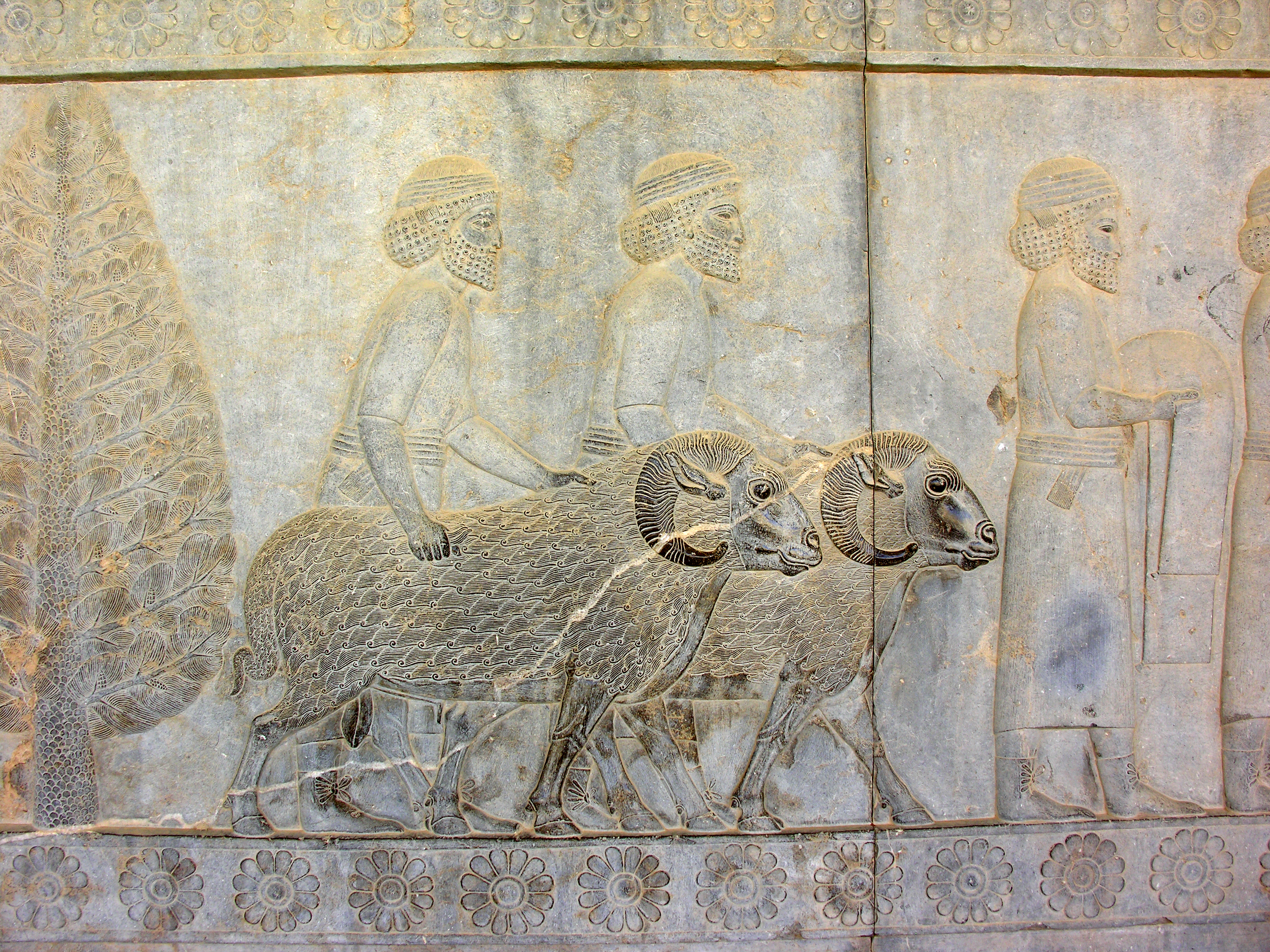 Citation Arthur C. Prentice: „Relief of Rams of Cilicians of Distinct Karakul Type on the Apadana Staircase at Persepolis (500 B. C.).“ A Candid View of the Fur Industry. Publishing Company Ltd, Bewdley, Ontario, December 1976.